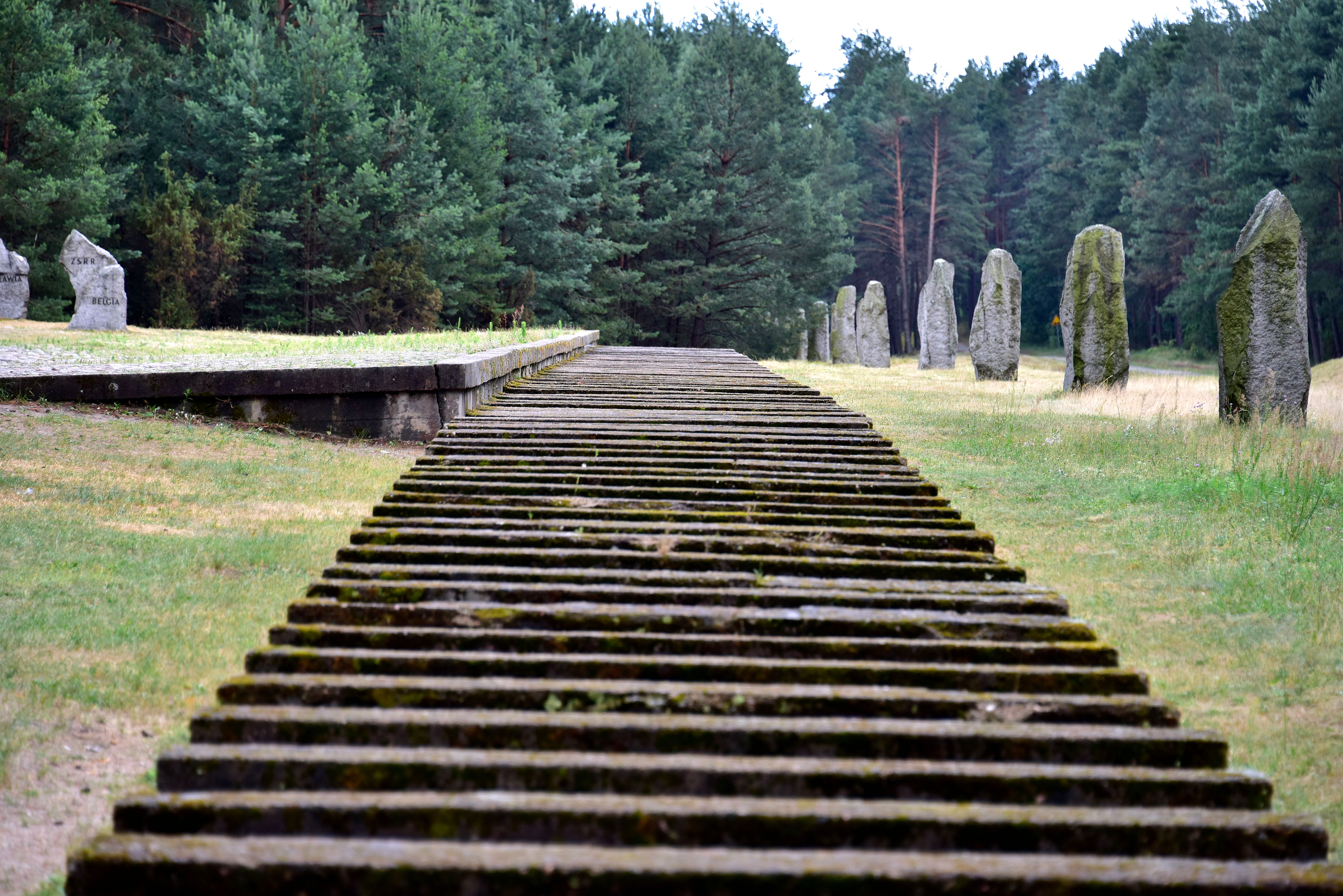 Site of the former Treblinka II death camp